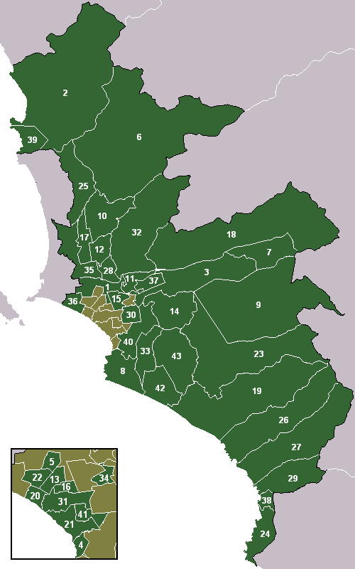 Provinces of Lima, Peru